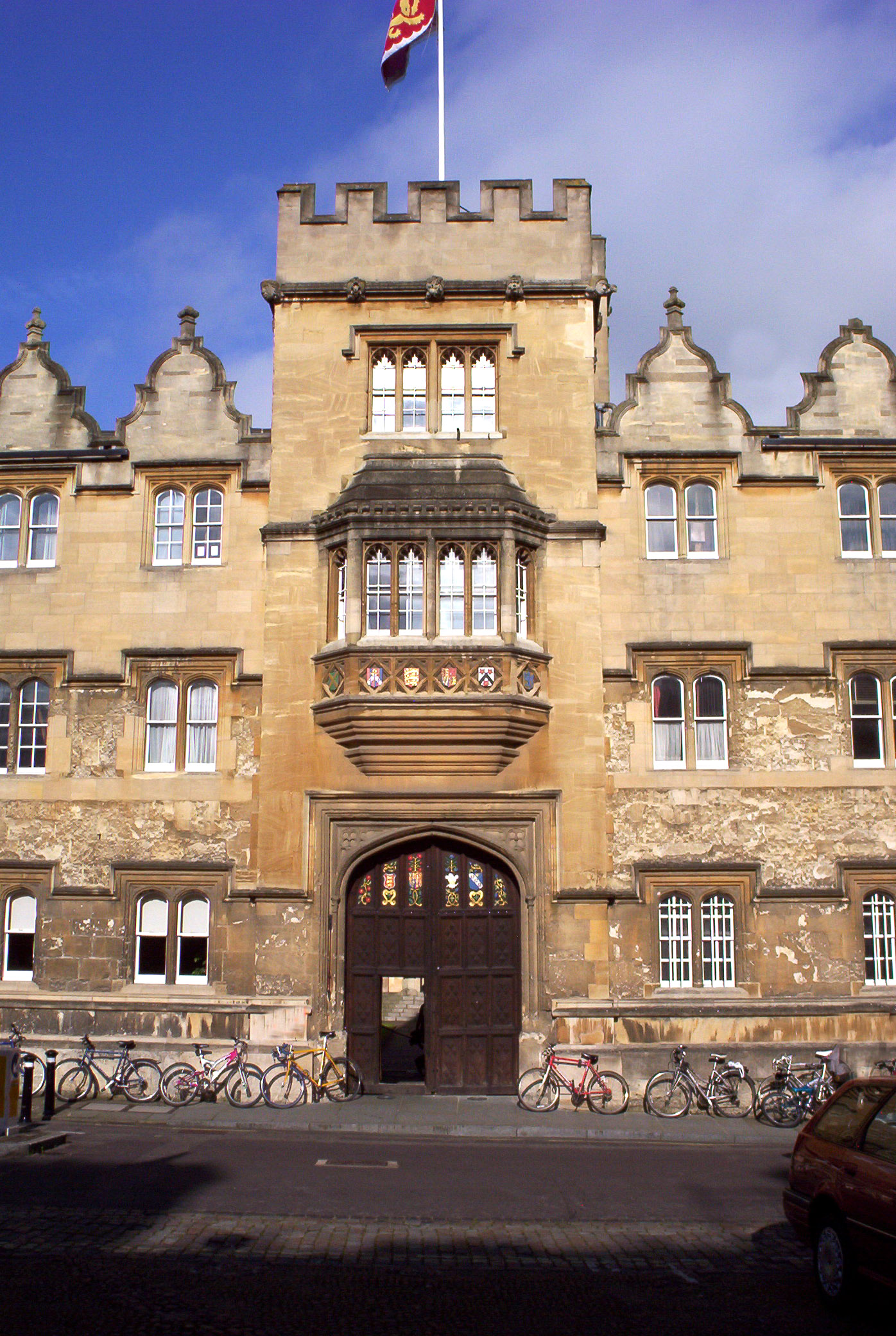 Photograph of the main gate of Oriel College, Oxford. Brightness slightly enhanced using Photoshop. Photo taken by me. --Alf melmac 17:53, 26 May 2006 (UTC)